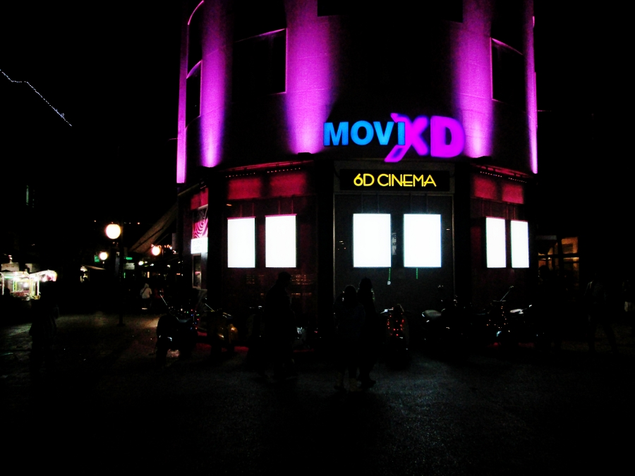 Movie XD 6D cinema Nicosia Republic of Cyprus